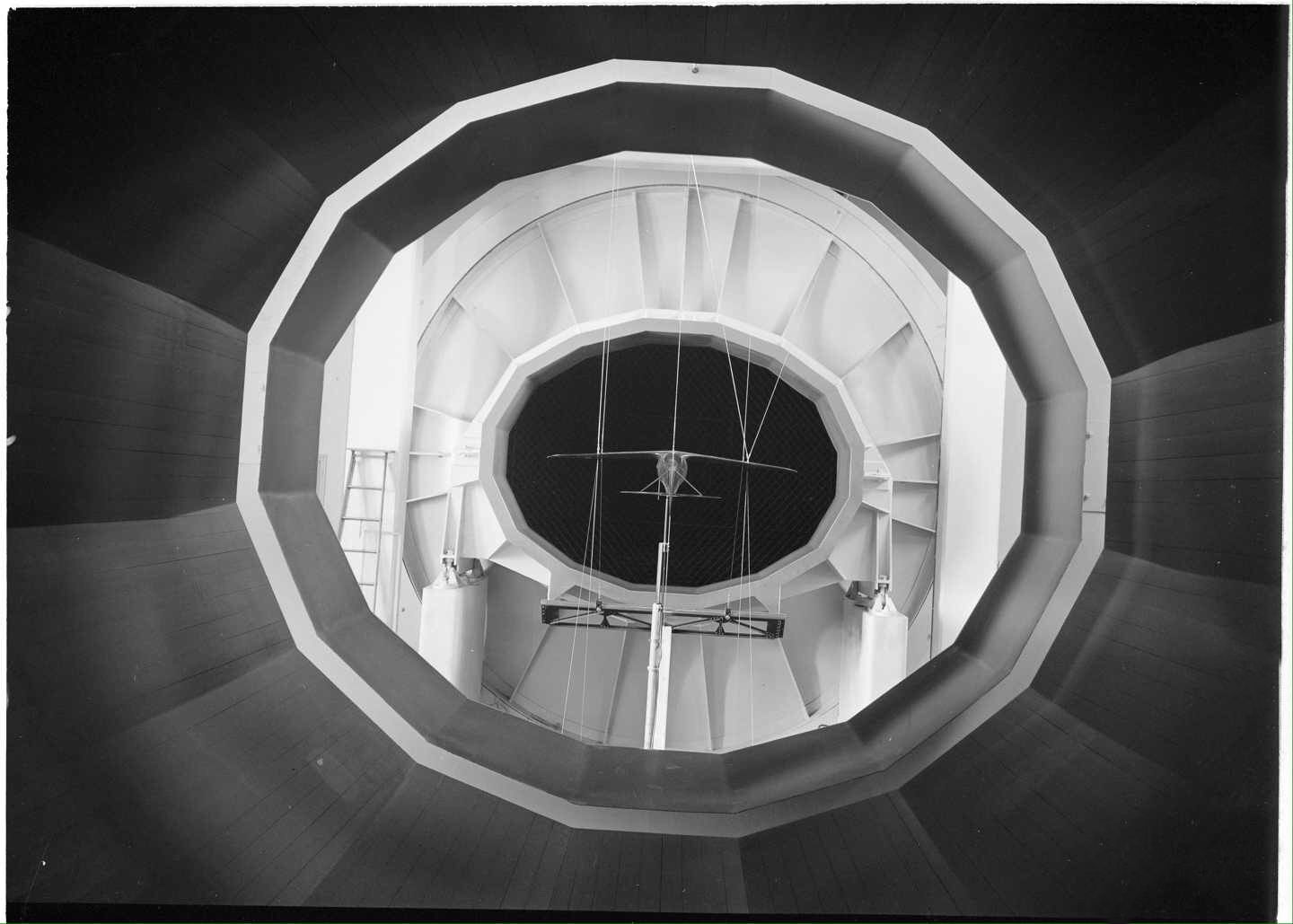 Wind tunnel of Valtion lentokonetehdas